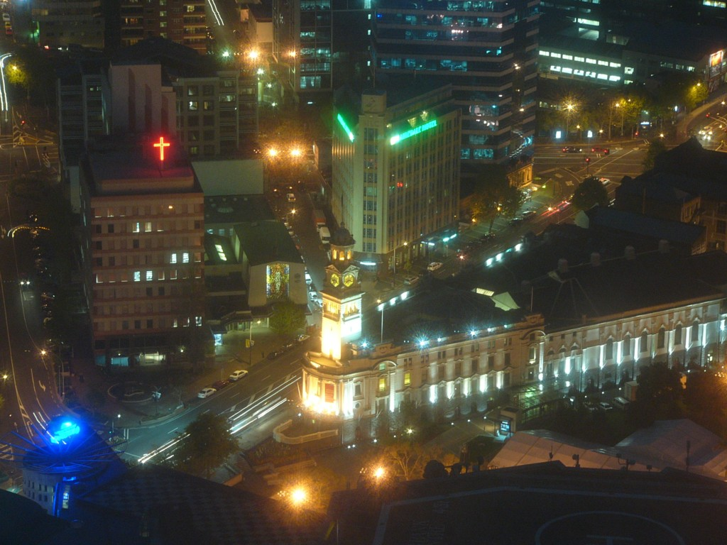 Auckland Town Hall, Aotea Square and the surrounding buildings at night (taken from the Sky Tower).